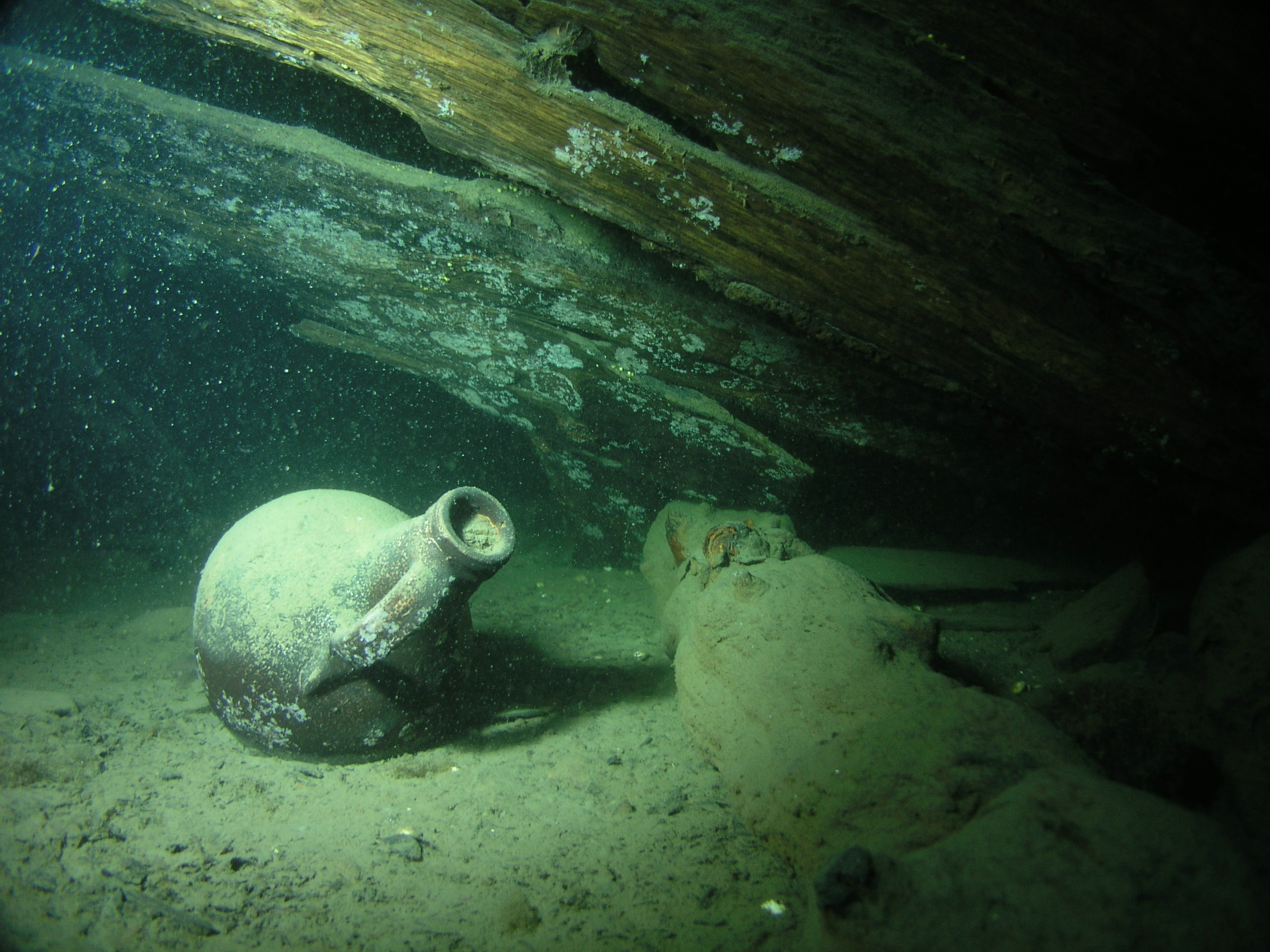 The "Dalarö-wreck" with a bartmann jug resting on the sea floor next to the wreck.